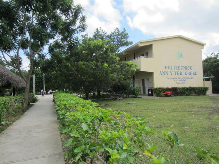 Ann & Ted Kheel Polytechnic School; Veron, Dominican Republic